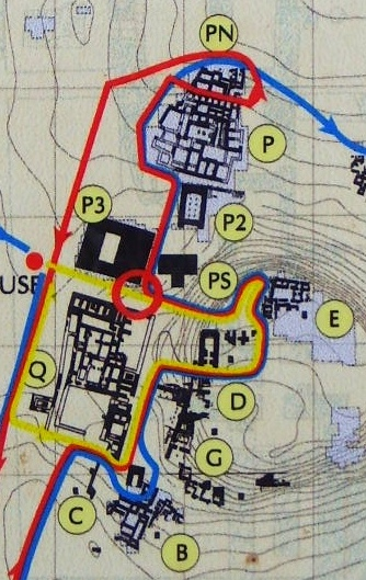 Ebla Main buildings of the Lower Town and the Acropolis of Tell Mardikh, ancient city of Ebla, Syria.